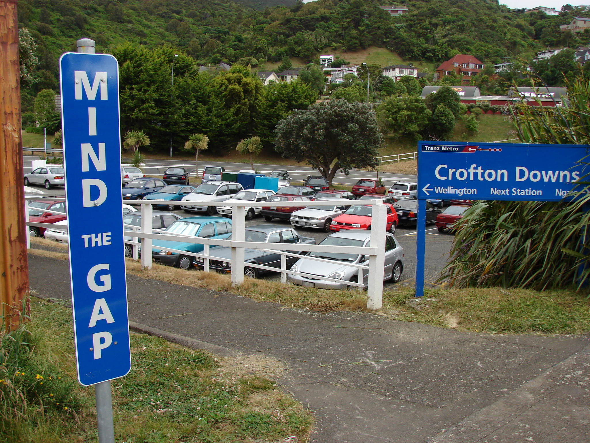 Crofton Downs railway station commuter car park. Photographed by Matthew25187 on 2007-12-17.